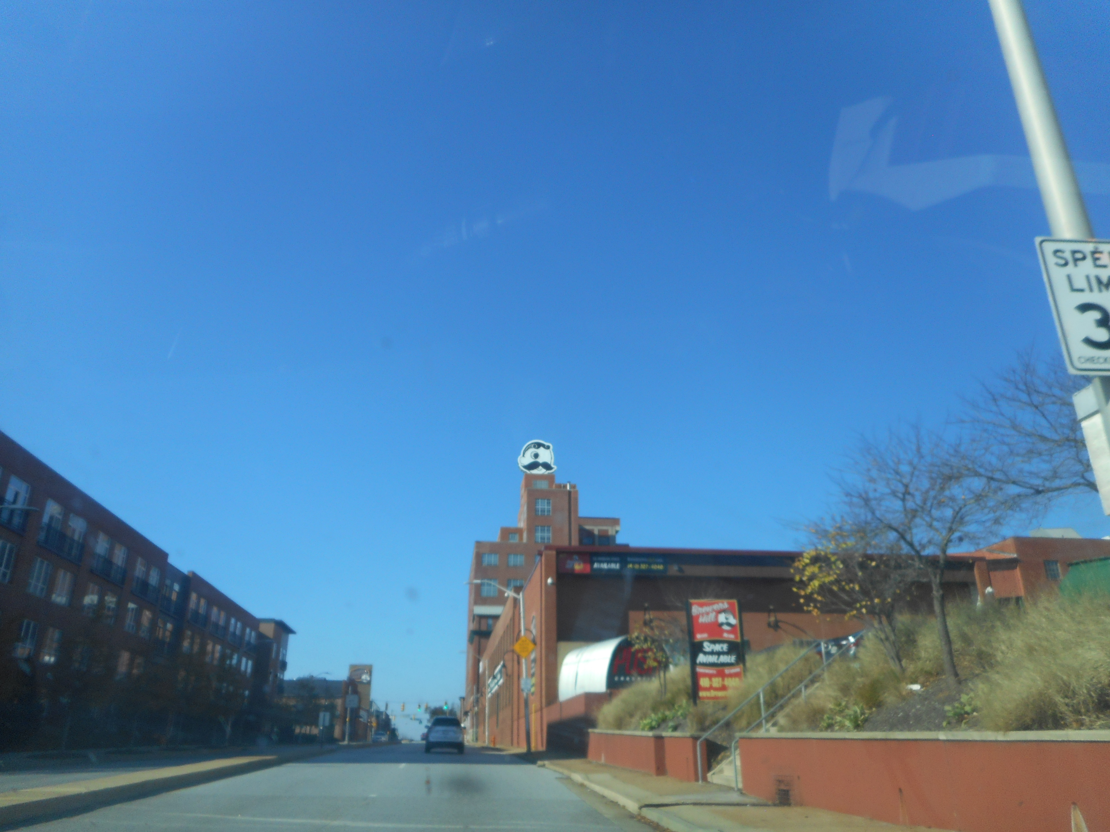 One of two buildings originally owned by National Brewing Company, on O'Donnell Avenue in the Brewers Hill Historic District east of the Canton section of Baltimore, Maryland.